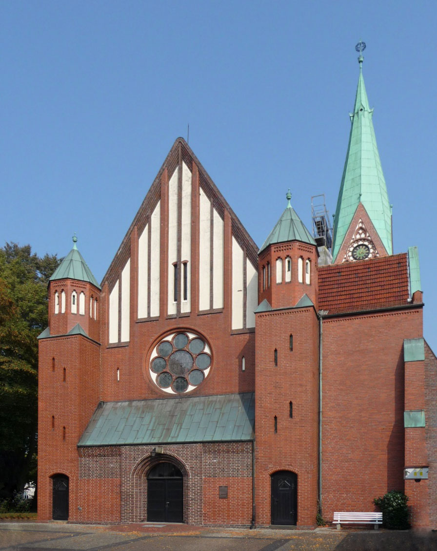 Martin-Luther-Church in Bremen-Blumenthal